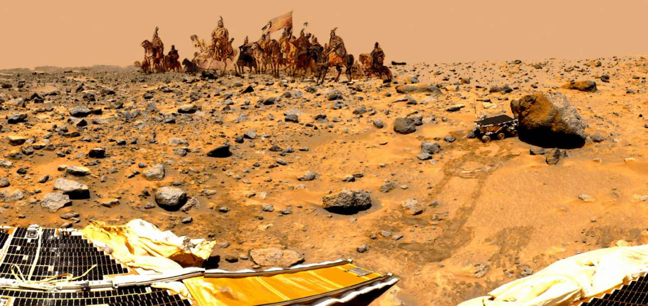 Hungarians on the Mars